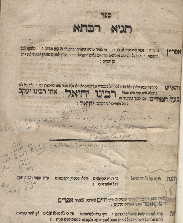 Tile page of Anav, Jehiel Ben Jekuthiel Ben Benjamin; Jehiel Ben Asher; Zedekiah Ben Abraham Anau: Tanya Rabati:... Kovets Kol ha-Dinim u-Minhagim ha-Re? Uyim La-Ish ha-Yisre? eli... Ha-Mehaber... Rabenu Yehiel Ahi Rabenu Ya'akov Ba'al ha-Turim. Zolkiev, 1800. Third edition. Tanya Rabati, an abridged form of Shibbole ha-Leket, attributed to either Jehiel ben Jekuthiel ben Benjamin Anav and/or Zedekiah ben Abraham Anau: (13th century), Italian talmudist; author of the compendium, Shibbolei ha-Leket ('The Gleaned Ears'), which can perhaps be considered the first attempt in Italy at the codification of Jewish law.